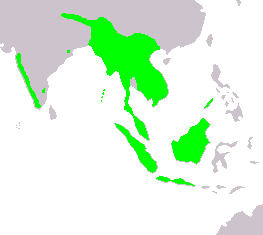 My own work from another map in commons